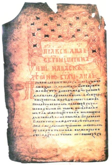 Cyrillic manuscript from XIII century found in Vranestica, Macedonia